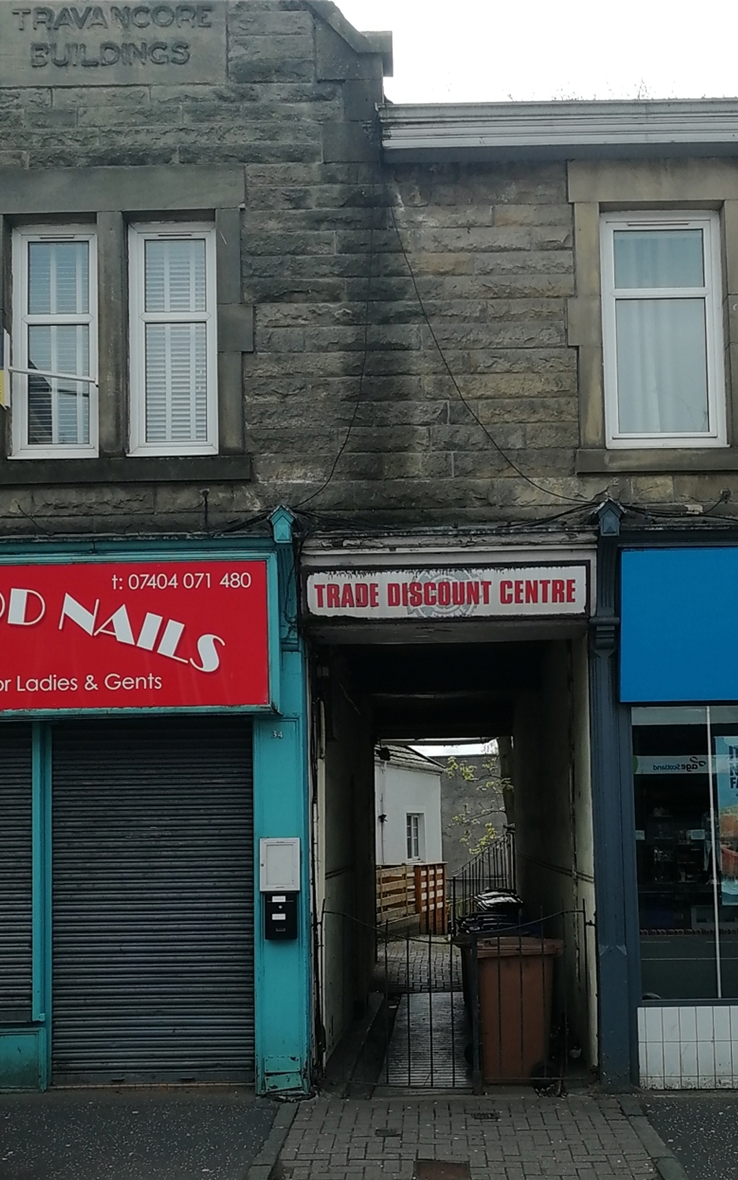 The Travancore Buildings have a typical Scottish pend, enclosed on both sides by high street commercial properties and used to access the upper-story residential properties from the rear of the building.